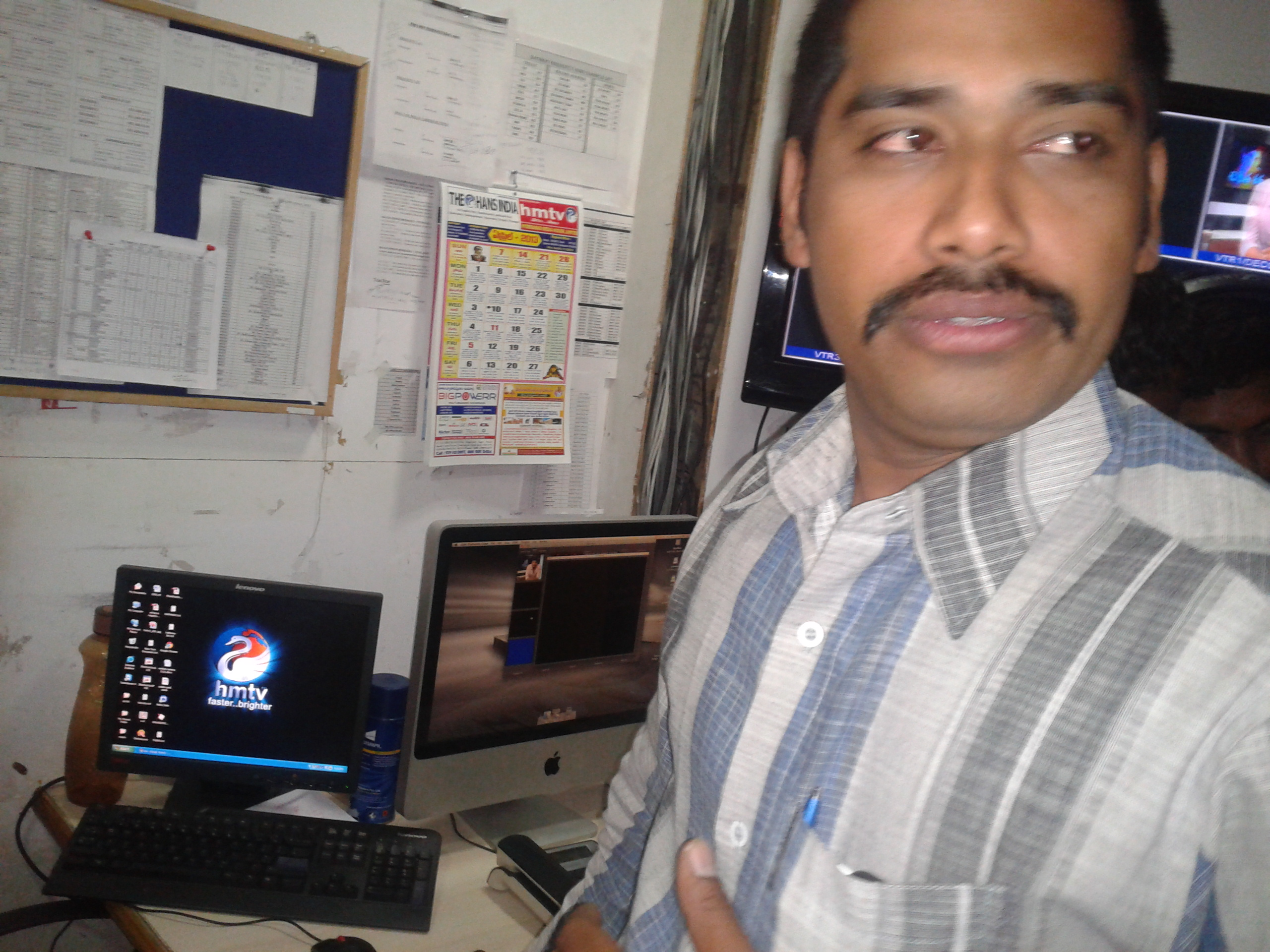 HMTV Ingest room